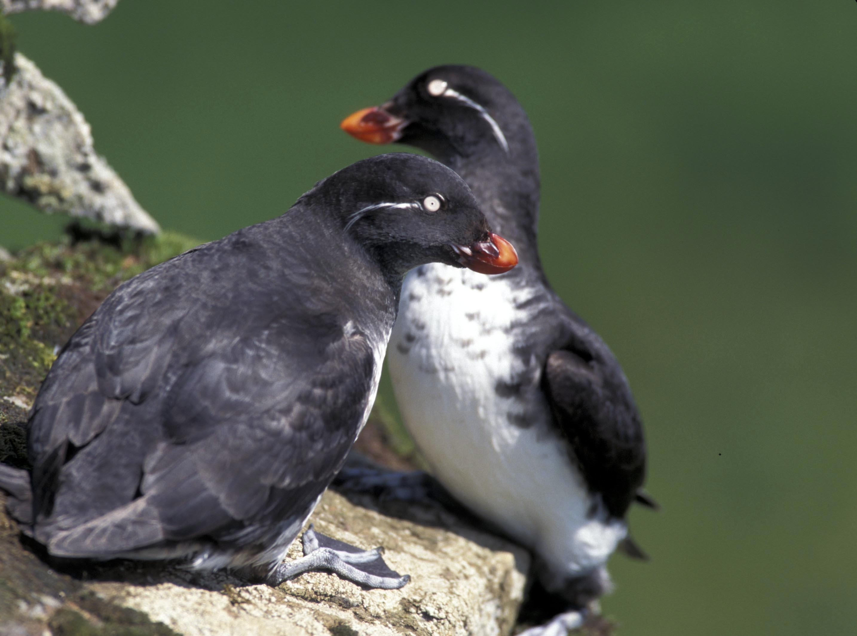 Parakeet Auklet (Cyclorrhynchus psittacula) first upload: Feb 27, 2005 - Wikipedia by User:Sabine's Sunbird